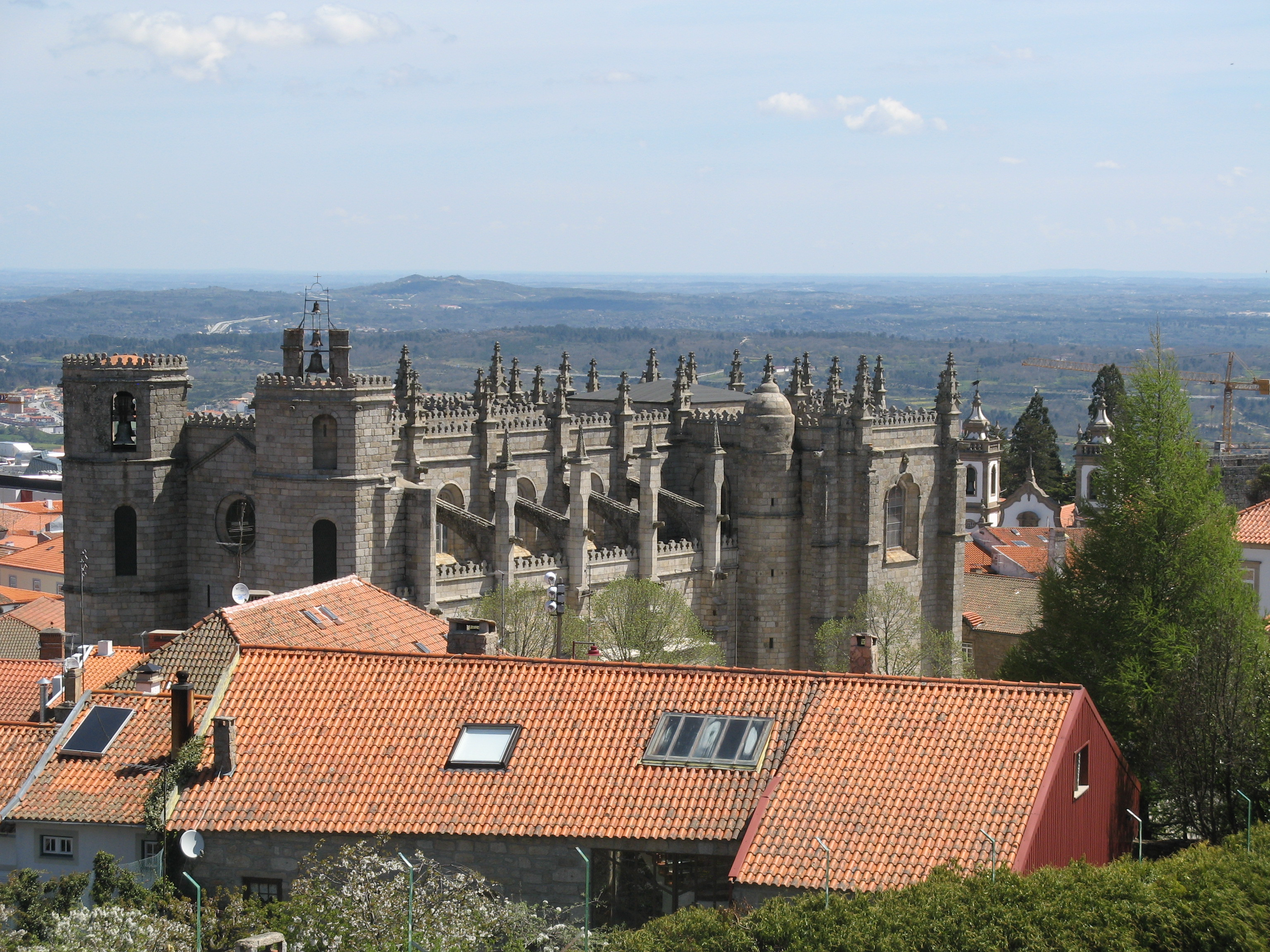 This file was uploaded for Wiki Loves Monuments in Portugal with the unique identifier 71096.